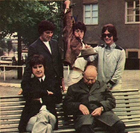 A promotional photo of British rock group The Kinks, taken at the junction S:t Eriksgatan/Västeråsgatan in Stockholm, Sweden, ca. 2 September 1965 (see The Kinks: All Day and All of the Night : Day-By-Day Concerts, Recordings and Broadcasts, 1961-1996, p. 65). From left to right: Ray Davies, Mick Avory, Pete Quaife, unidentified, Dave Davies. Location